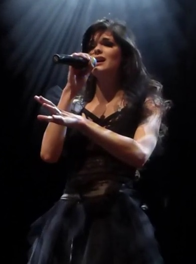 Singer